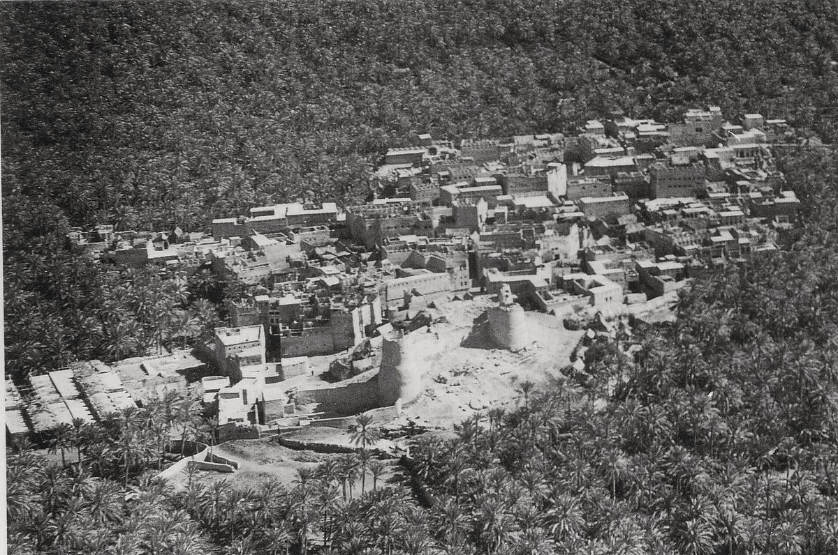 a view of tarout castle from the sky taken by Saudi aramco